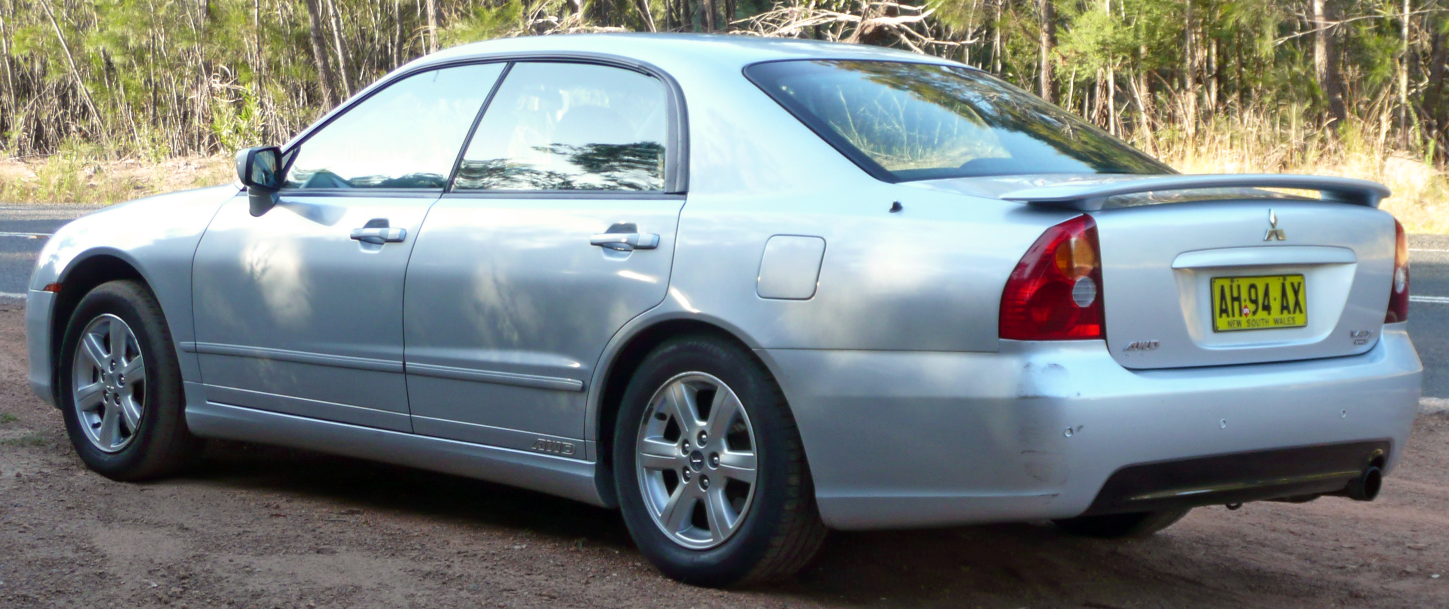 2004–2005 Mitsubishi Magna (TW) VR-X AWD sedan. Photographed in Audley, New South Wales, Australia.